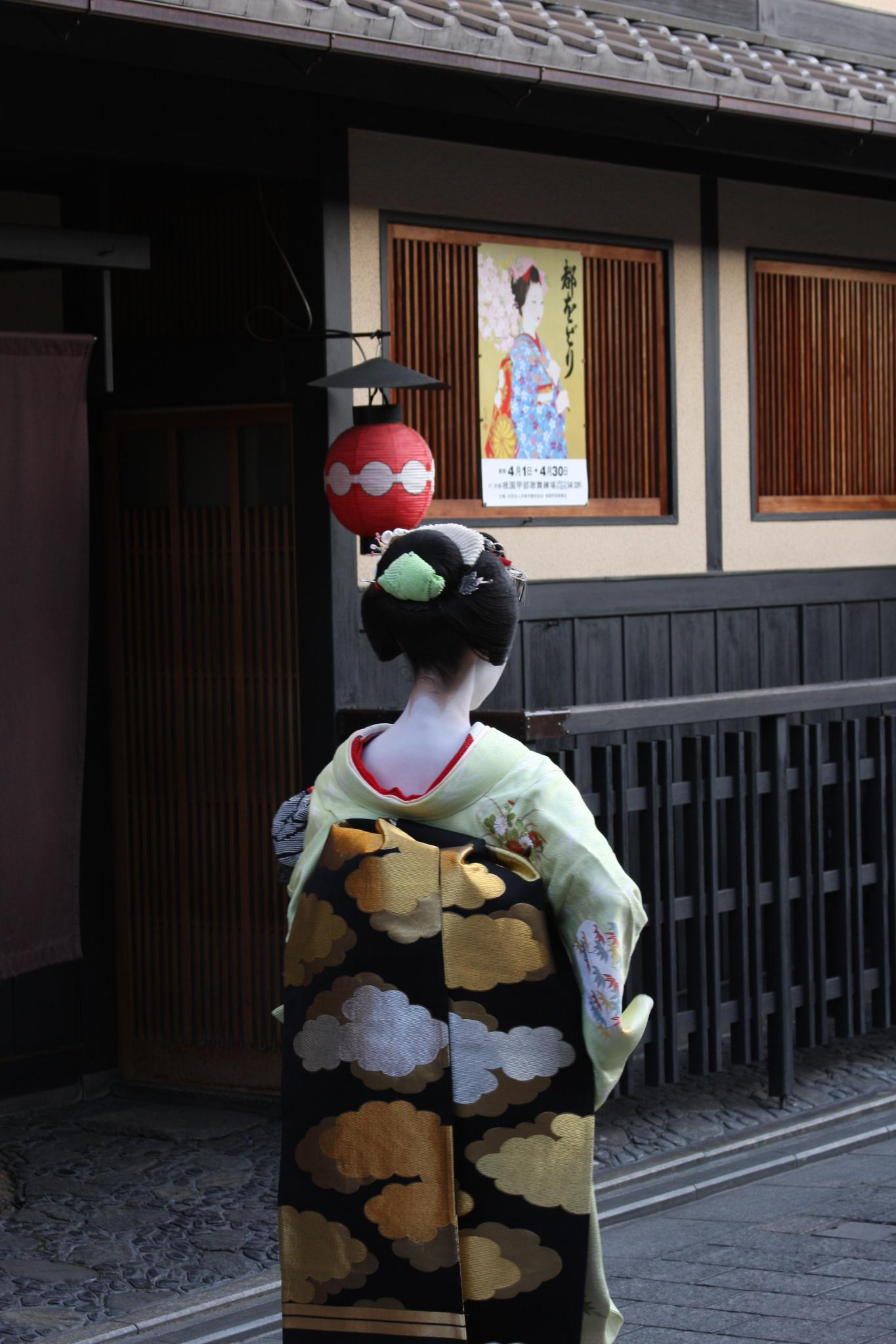 Senior maiko with ofuku hairstyle. Kosen (小扇) of Hiroshimaya okiya, Gion Kôbu.